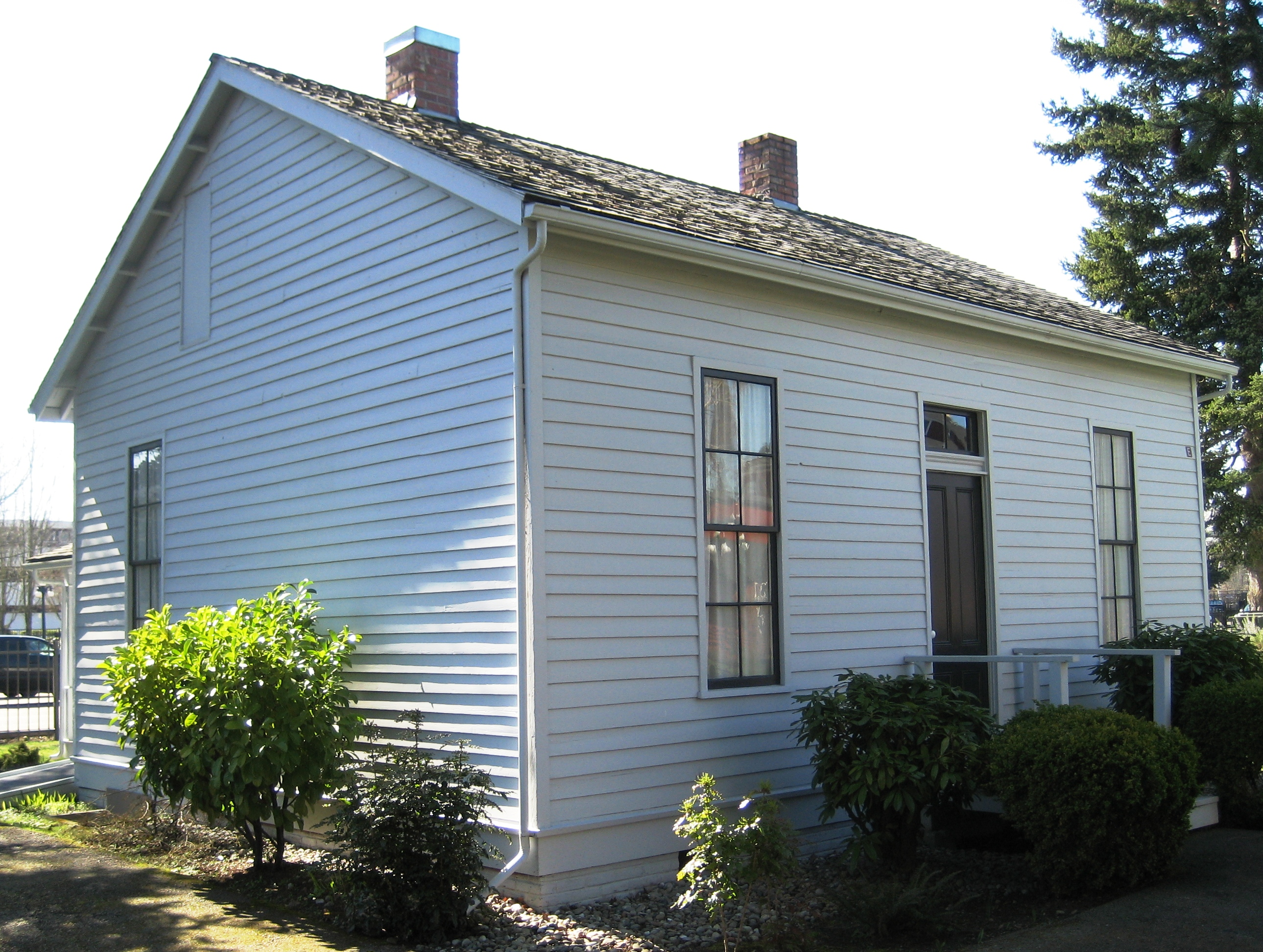 NRHP John D. Boon house in Salem, Oregon, USA.